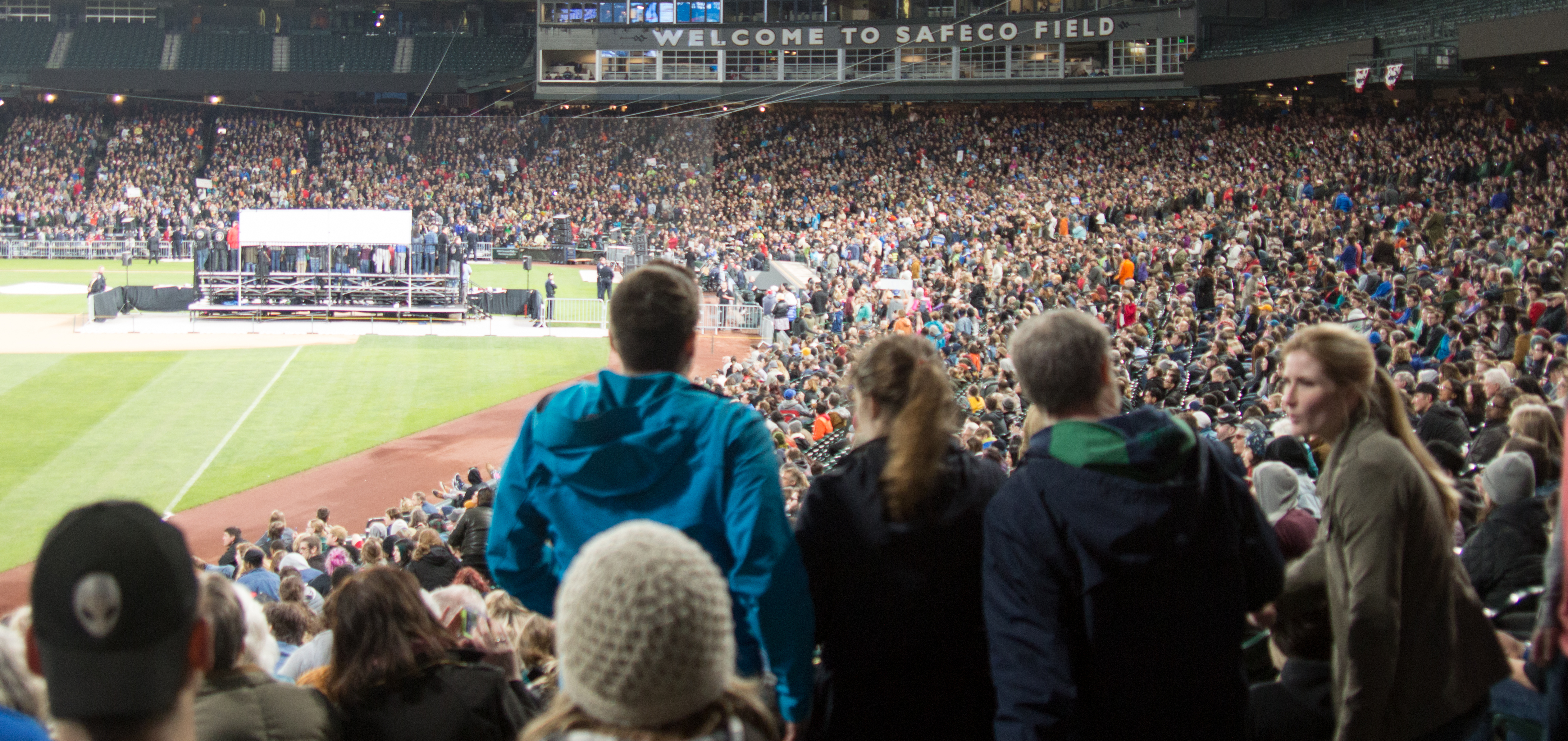 Bernie Sanders at Safeco Field in Seattle, March 25, 2016